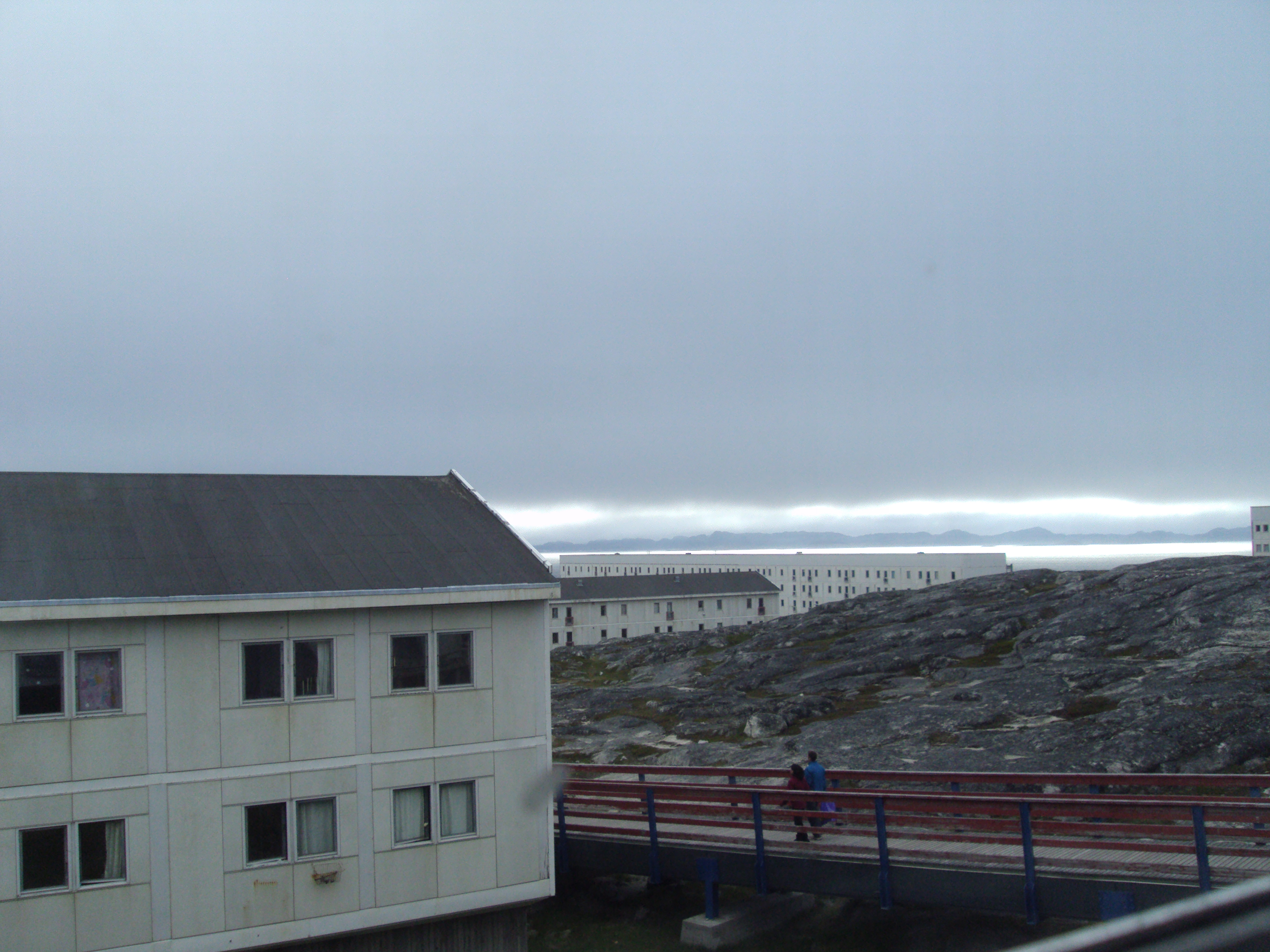 Radiofjeldet is a residential area in the center of Nuuk. The neighborhood is characterized by white apartment blocks and was built in the 70s. In the foreground, the low-rise buildings are seen on two floors, in the background higher blocks out to the water on four to five floors.